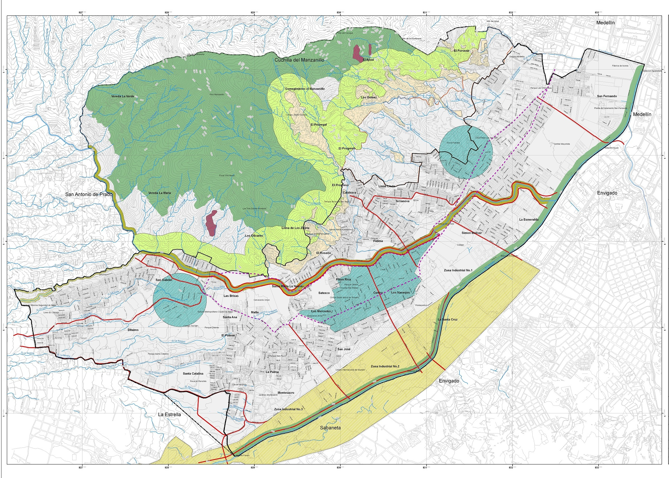 Mapa - División Político Administrativa de Itagüí